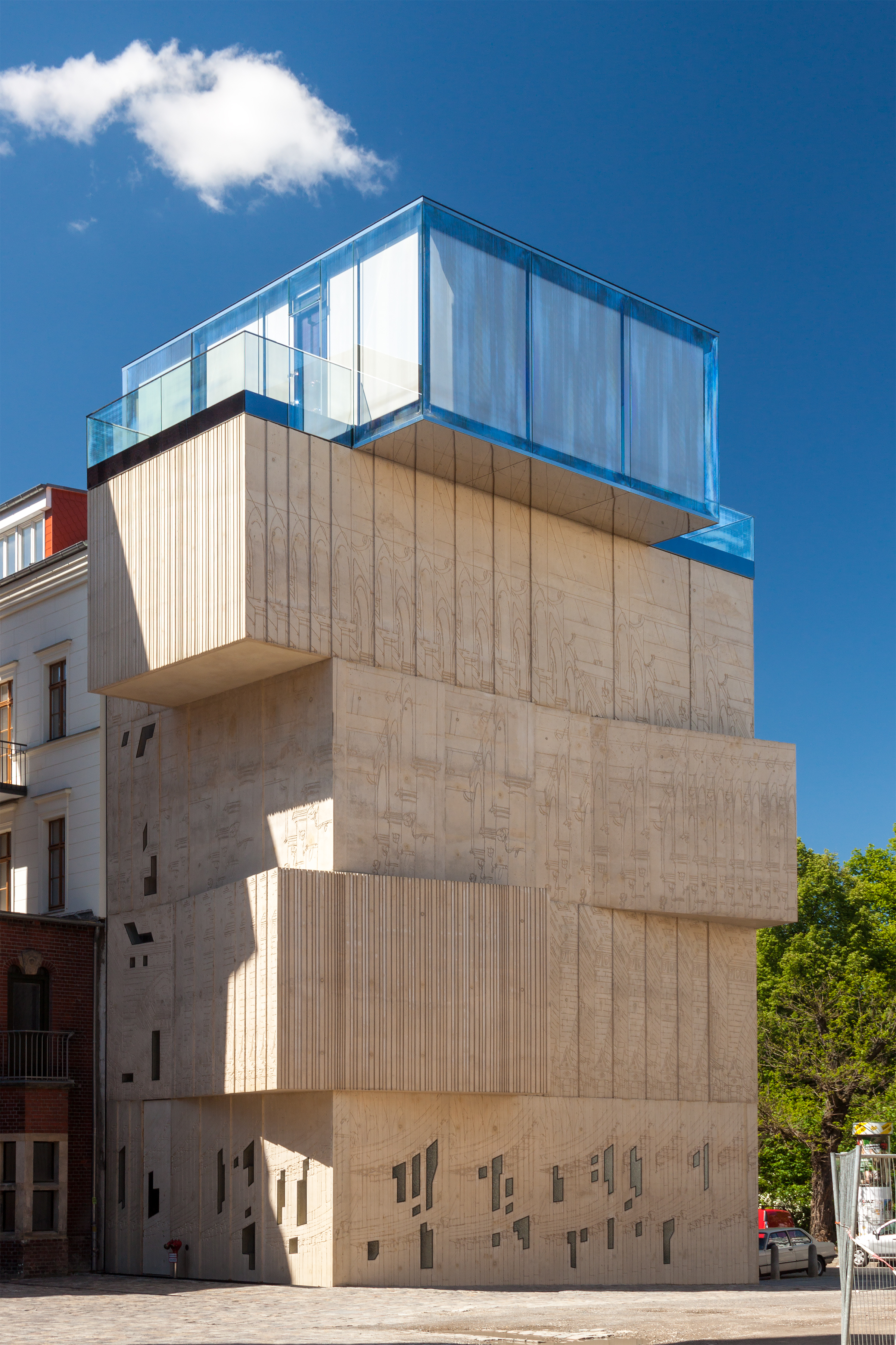 The Museum for Architectural Drawing on the Pfefferberg site in Berlin-Prenzlauer Berg. The museum was designed by the architects SPEECH Tchoban & Kuznetsov, Moscow.